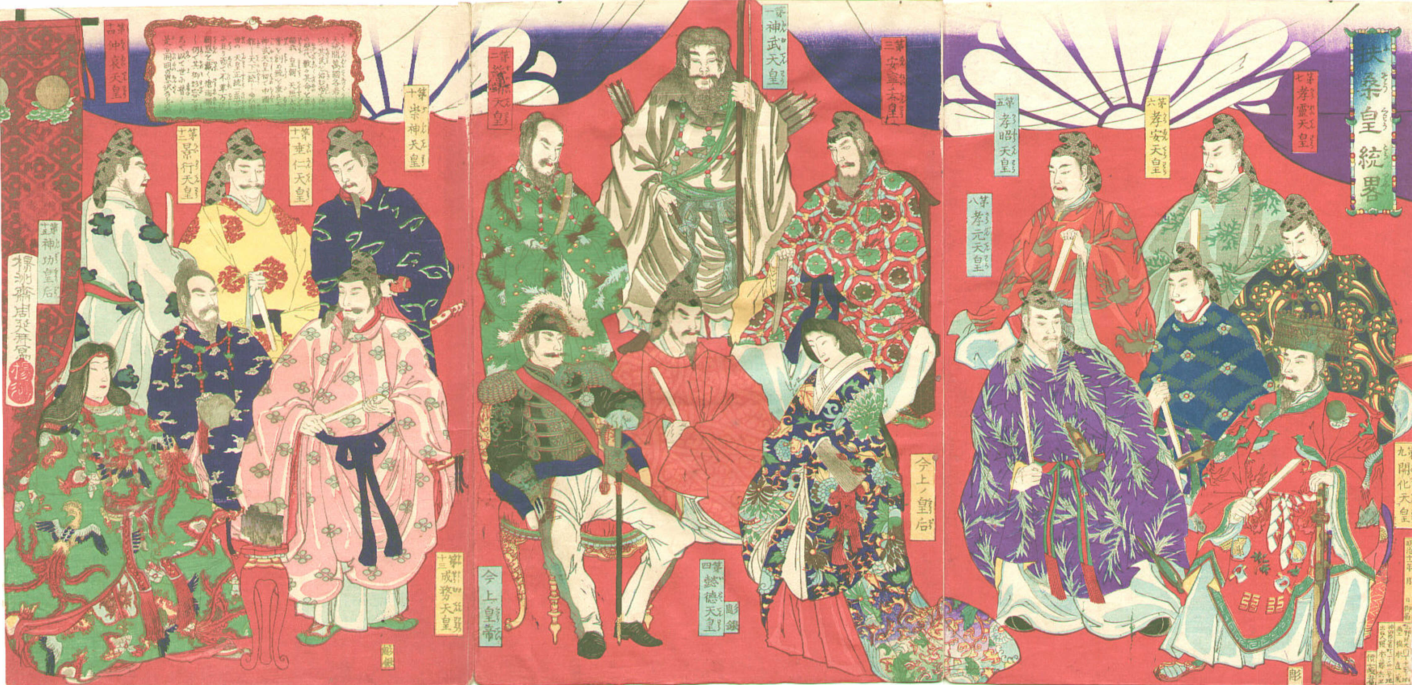 Imperial Lineage, by Chikanobu Toyohara (1838-1912), published by Enomoto Tobei. 3 Prints depicting the imperial lineage from the first Emperor Jimmu (middle with bow and arrows) to the Meiji Emperor and Empress.